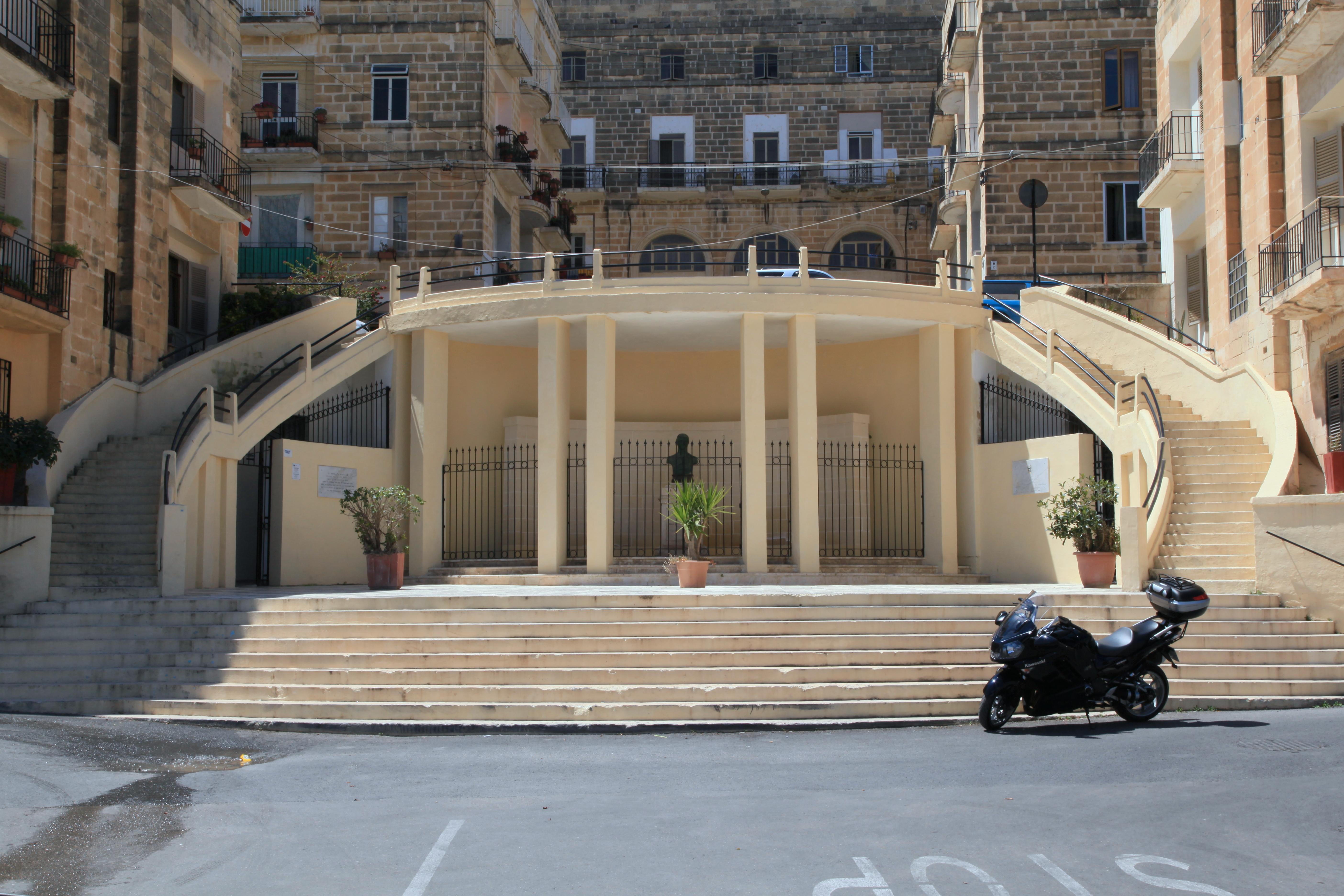 Monument to Juan Bautista Azopardo, Triq Ix-Xatt Juan B. Azopardo in Senglea, Malta